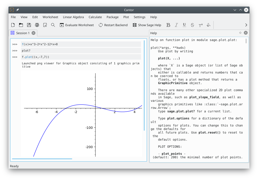 Screenshot of Cantor 19.04.1 using the Sage backend. Showing the help docker in the right side and some mathematical instruction in the left side.